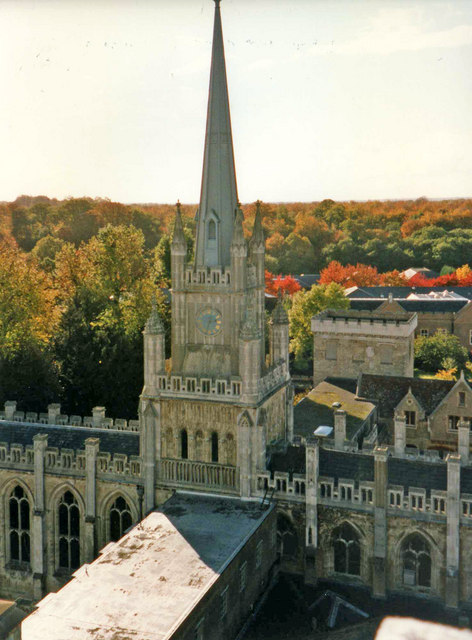 Spire of Chapel, Ashridge Management College, Hertfordshire Looking down on the roof towards the spire of the chapel, taken from the tower.